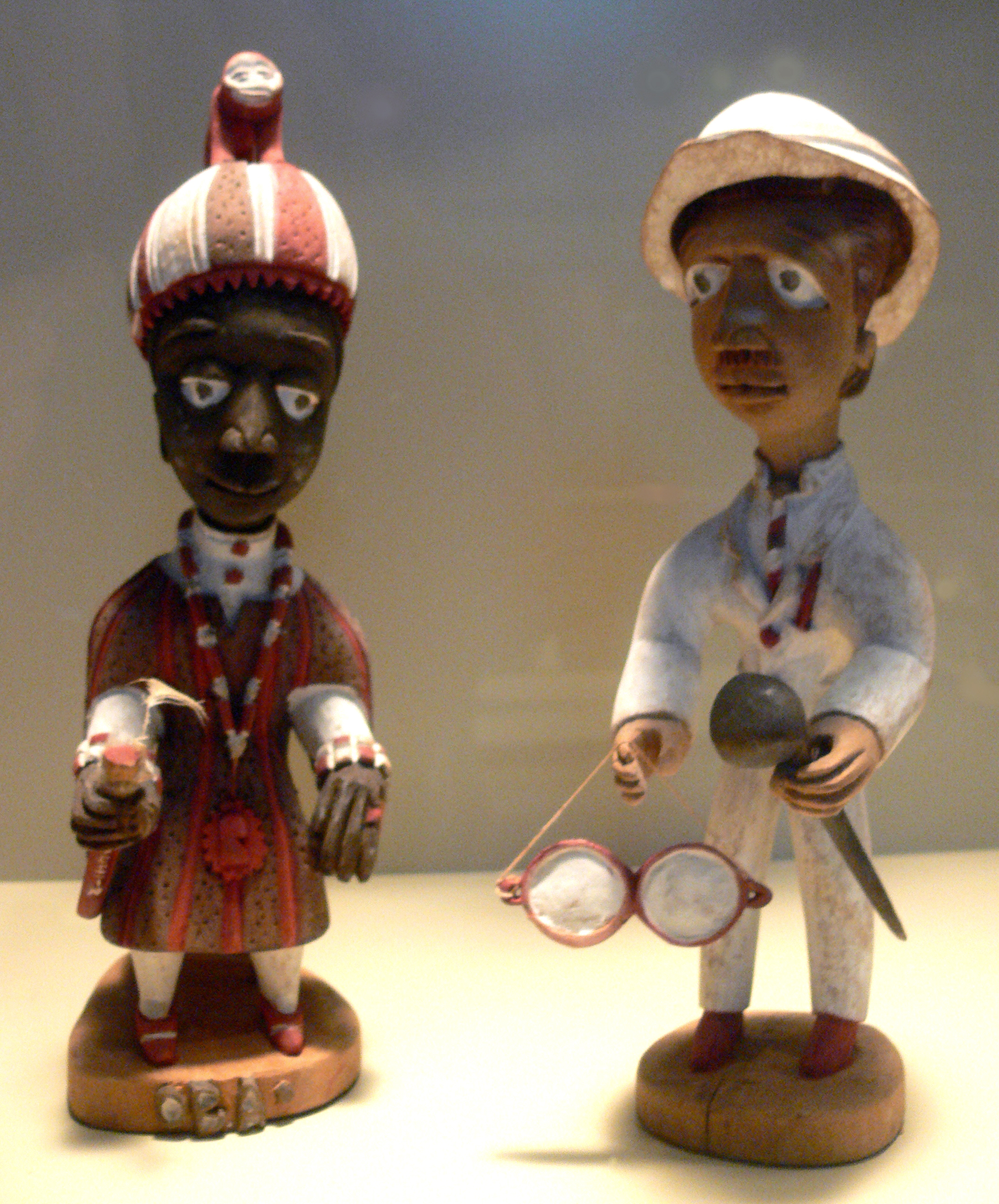 Eureopans in Africa; wood, paint; Yoruba people, West Nigeria; 1st half of 20th century. Tropenmuseum Amsterdam, Inv. Nr. 3441 (gift of Lens van Rijn-van Peski, 1964)